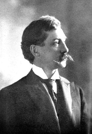 Wyoming archives